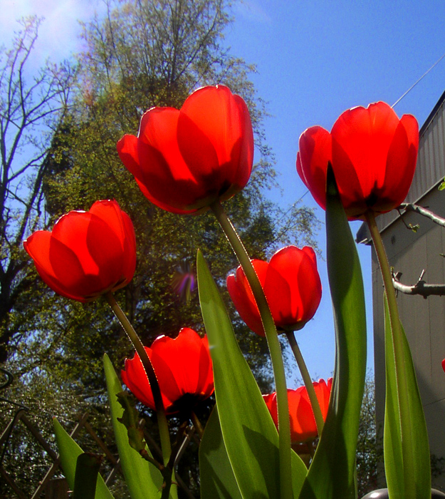 Red tulips in the garden tulips